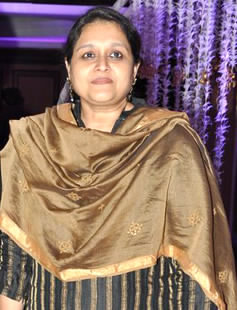 Supriya Pathak at Sunidhi Chauhan's wedding reception at Taj Lands End